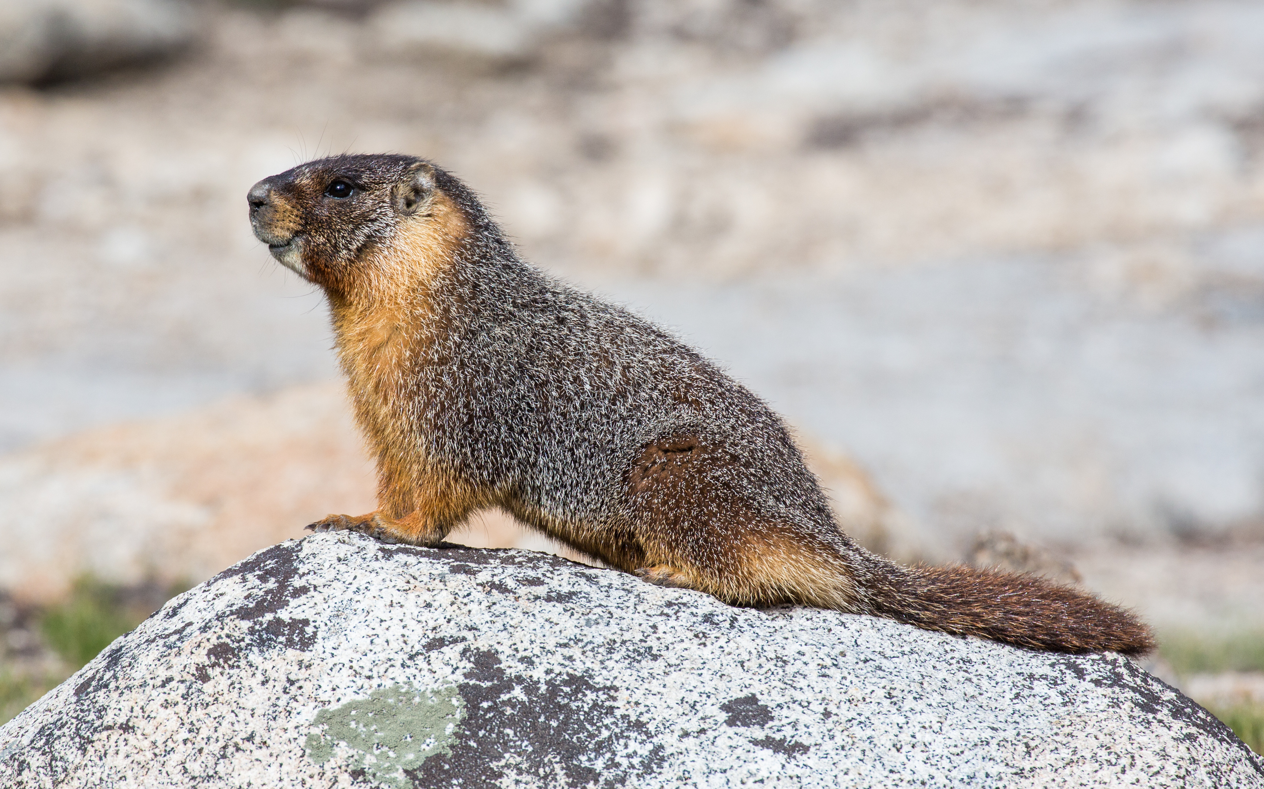 Marmota flaviventris, or a Yellow Bellied Marmot, on a rock in the Tuolumne Meadows Yosemite National Park, California, United States.